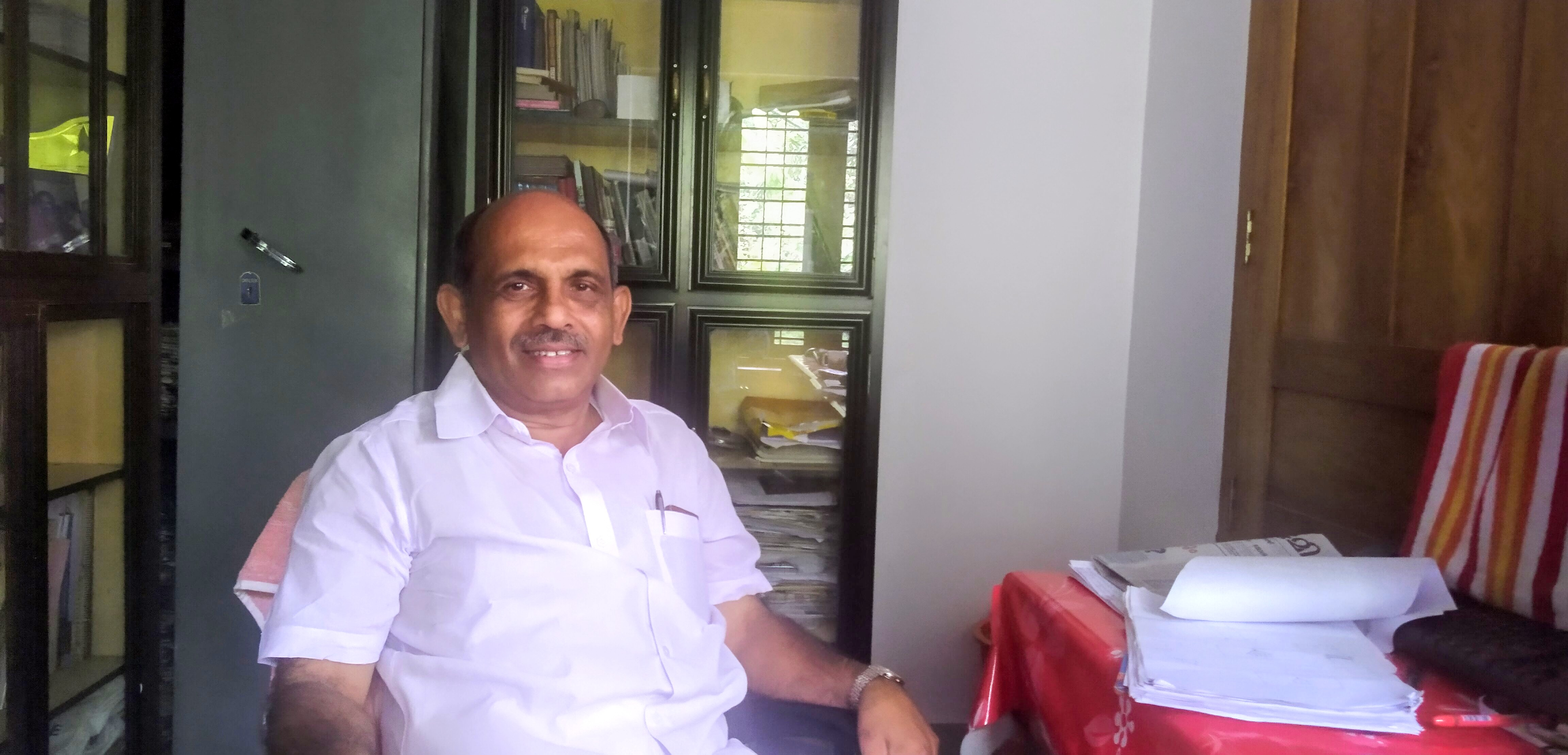 camera IMG_20190425_104803_LL.jpg 10.2MP 4608x2218 1.0 MB motorola one power f/1.8 1/20 3.84mm ISO1250 Taken at Keezhvaypur